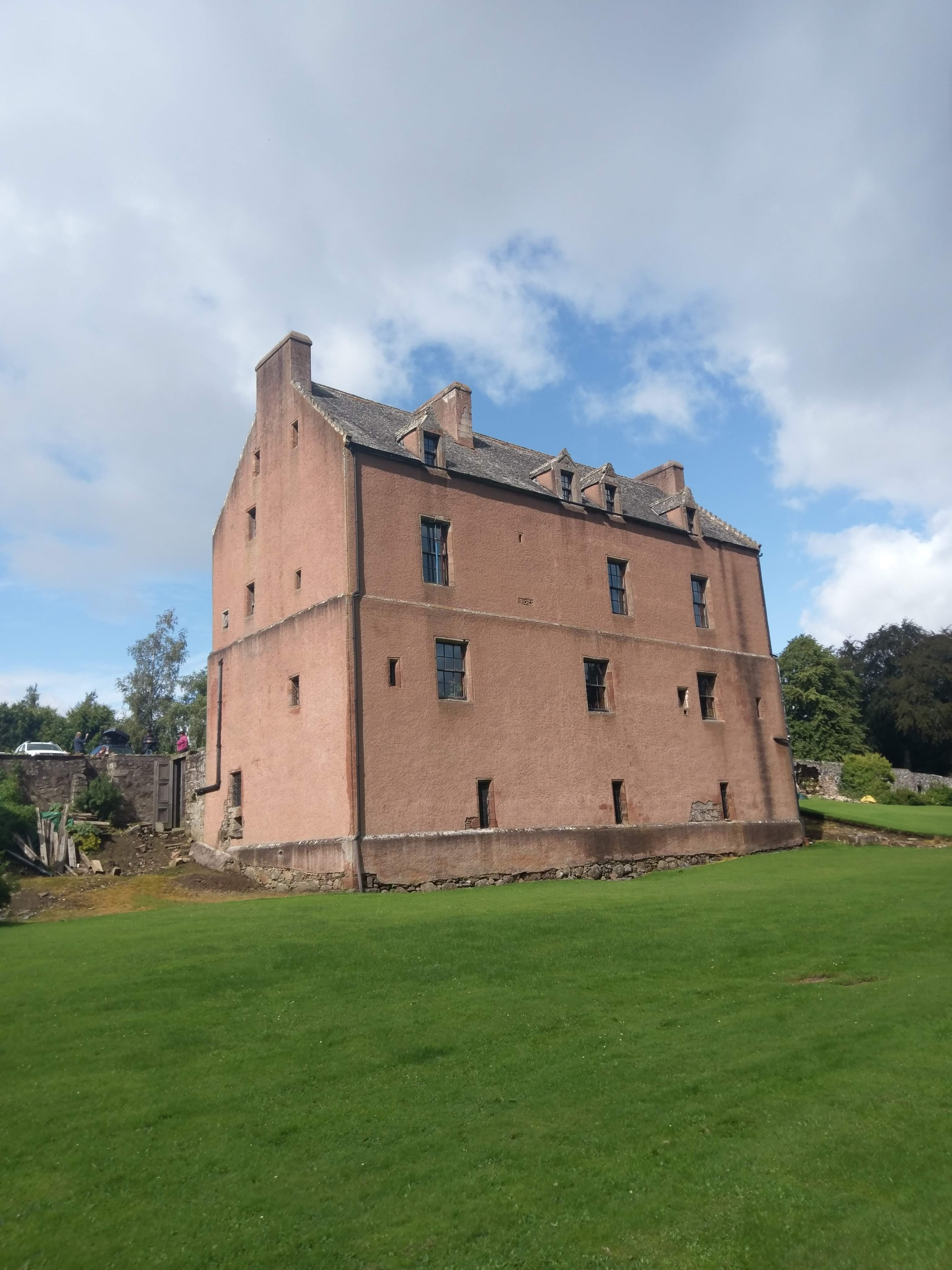 Druminnor Castle in 2019, during a visit by the Castle Studies Trust to inspect the archaeological investigations it funded as part of the Bennachie Landscape Project, run by the Bailies of Bennachie and the University of Aberdeen.